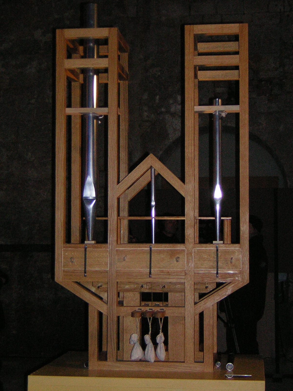 This image has been taken by Wikipedia-ce on january 5 of 2005 and is public domain. It shows the special organ for playing Organ2/ASLSP, which will last 639 years, in the burchardi church of Halberstadt, Germany.